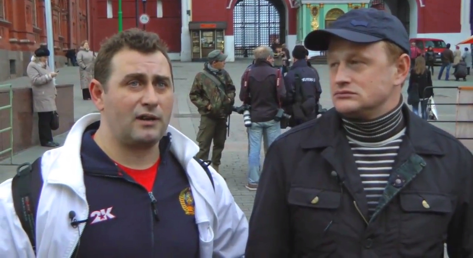 Maxim Kalashnikov (left,) a Russian writer, and Rodina: Common Sense Party secretary together with Russian ex-cop Alexey Dymovsky, at the Red Square, attending a civil protest against anti-state, authotarian measures of the Putin&Medvedev’s regime. Moscow, November 12, 2010.